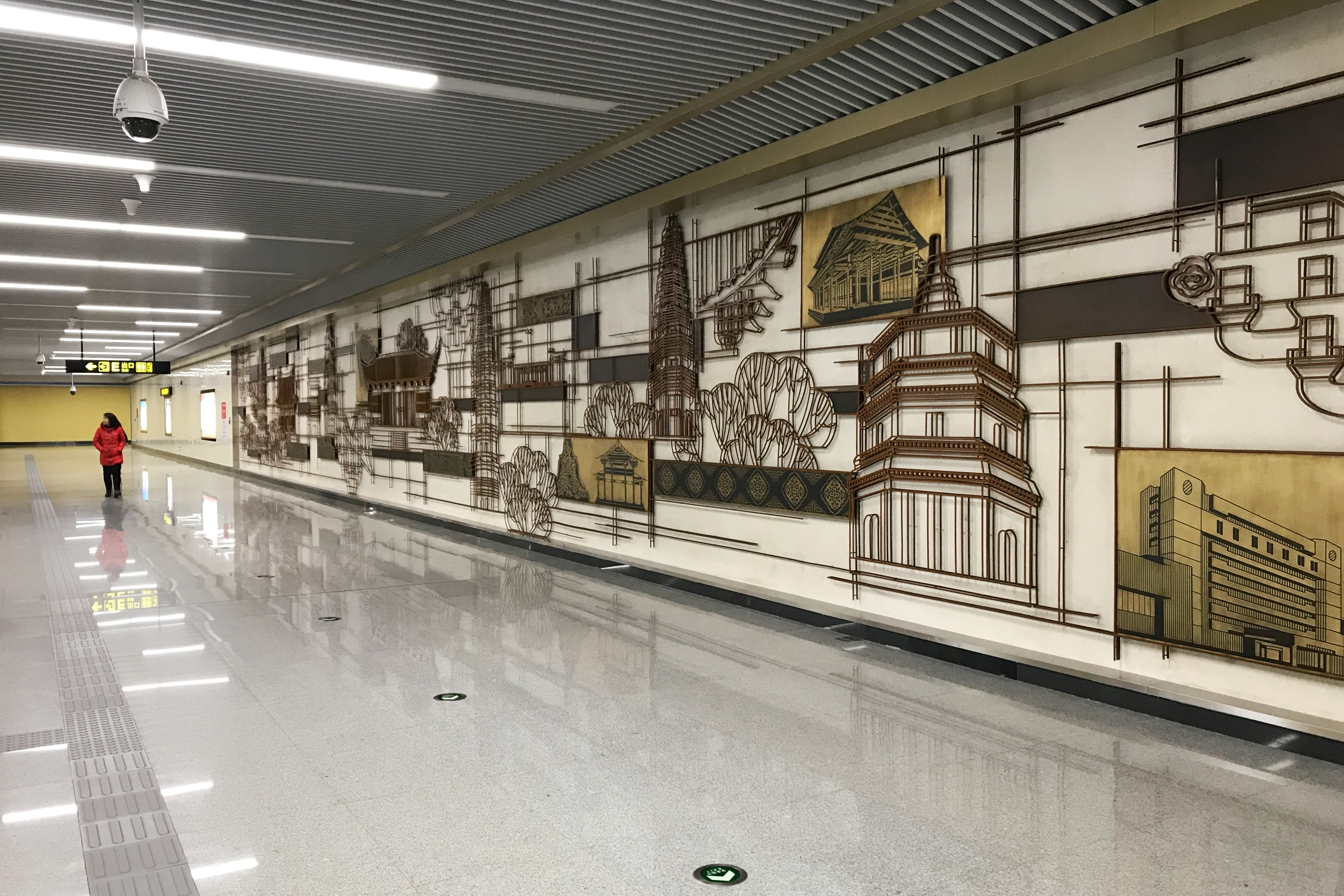 Mural at the concourse of Huijiquzhengfu Station